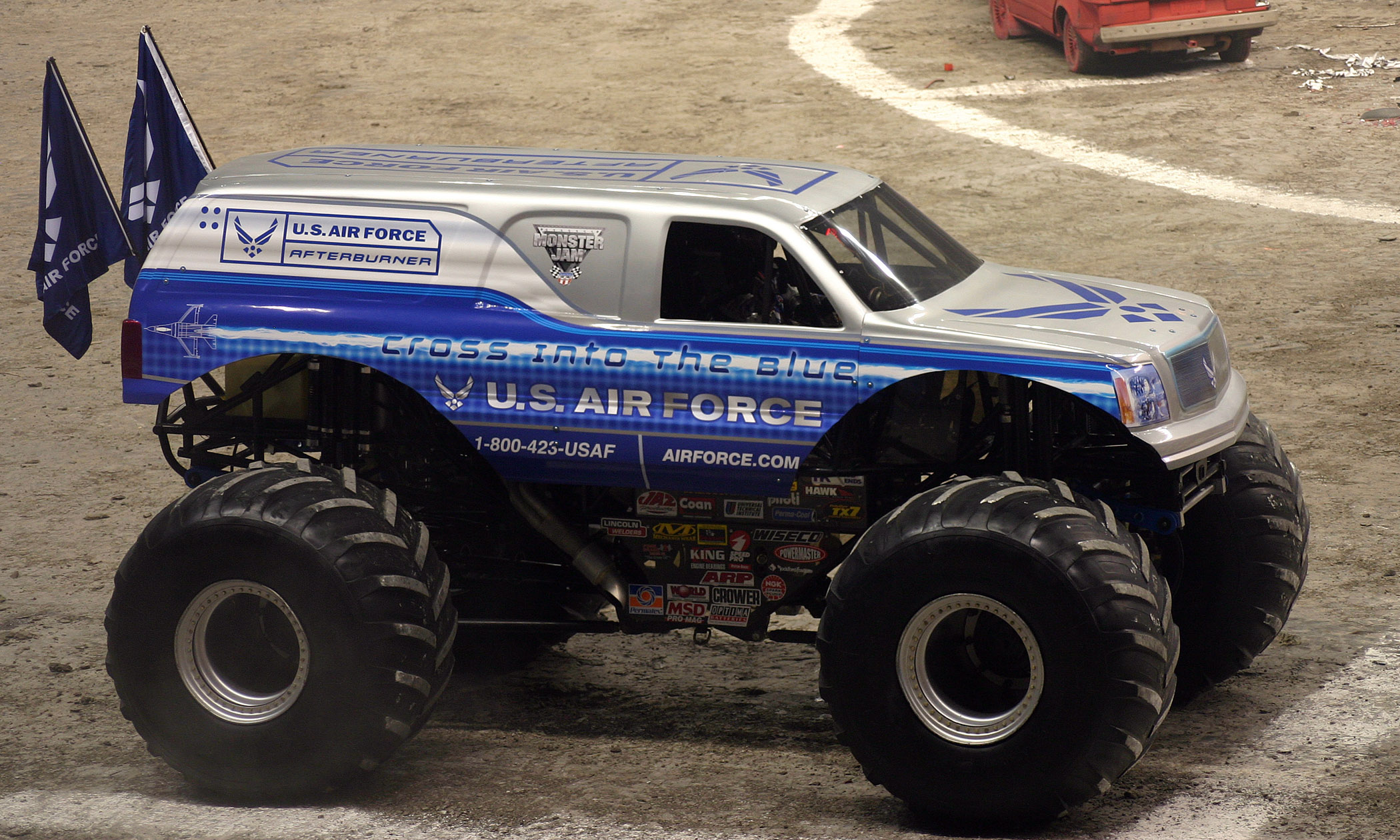 The Air Force Afterburner, driven by Damon Bradshaw, competes in the freestyle competition Jan. 10 at the Alamodome in San Antonio during the 2009 Monster Jam. Mr. Bradshaw and Afterburner placed second in the event.